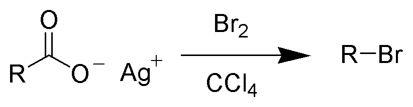 Description: Reaction scheme of the Hunsdiecker reaction. Author, date of creation: selfmade by ~K, 11 February 2006. Source: - Copyright: Public domain. (PD) Comments: high-resolution b/w PNG; ChemDraw / The GIMP.